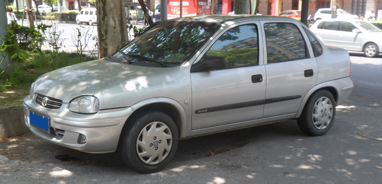 Buick Sail photographed in Shanghai, China.